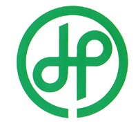 Ichinomiya Chiba chapter